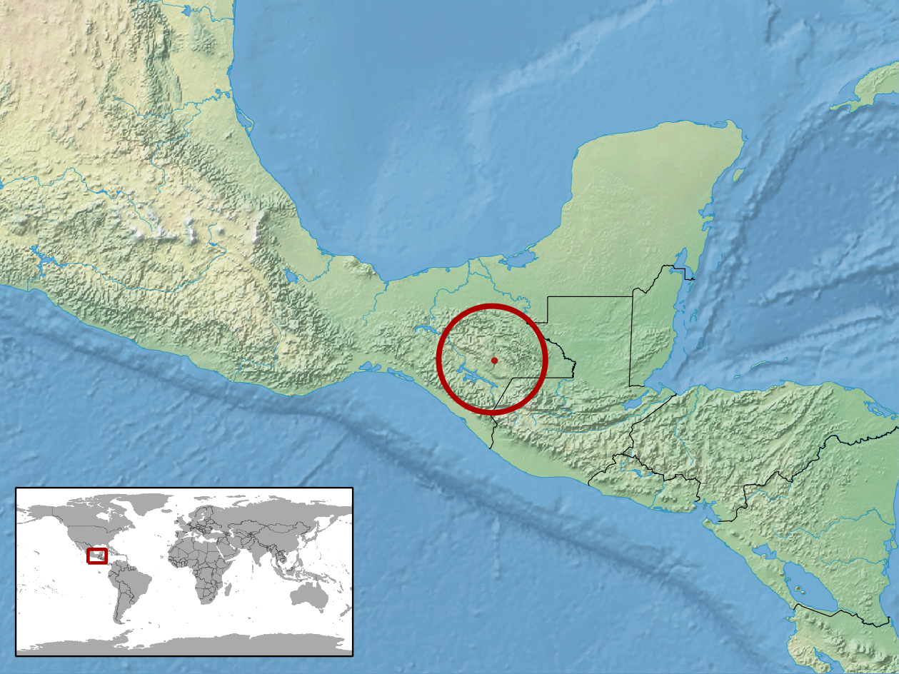 geographic distribution of Abronia ochoterenai (Native: Mexico)